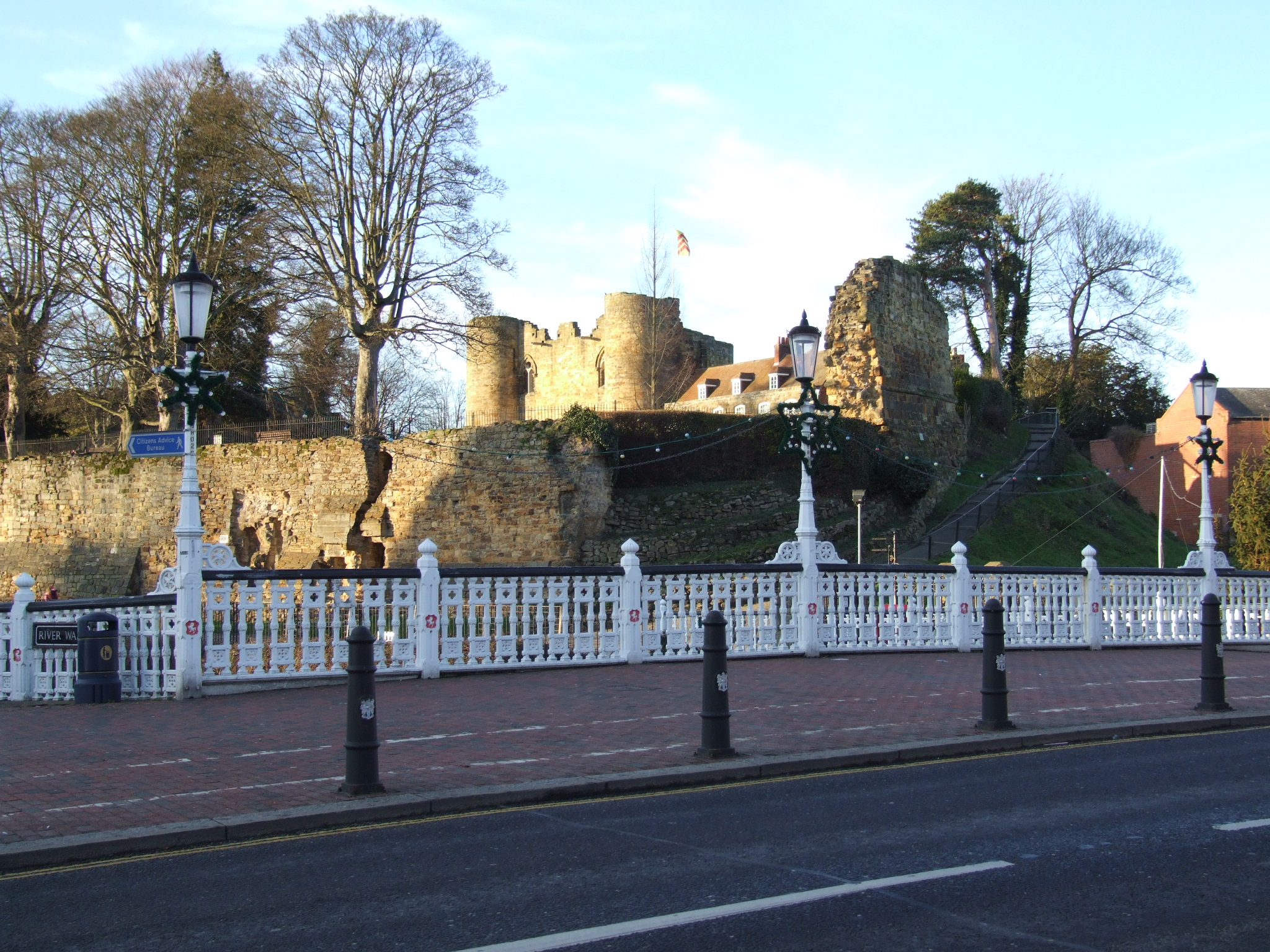 Tonbridge in Kent lies on the River Medway. The main channel passes under Big Bridge.Three channels have been culverted, the Botany Stream remains. Tonbridge is protected by Tonbridge Castle Castle Big Bridge.